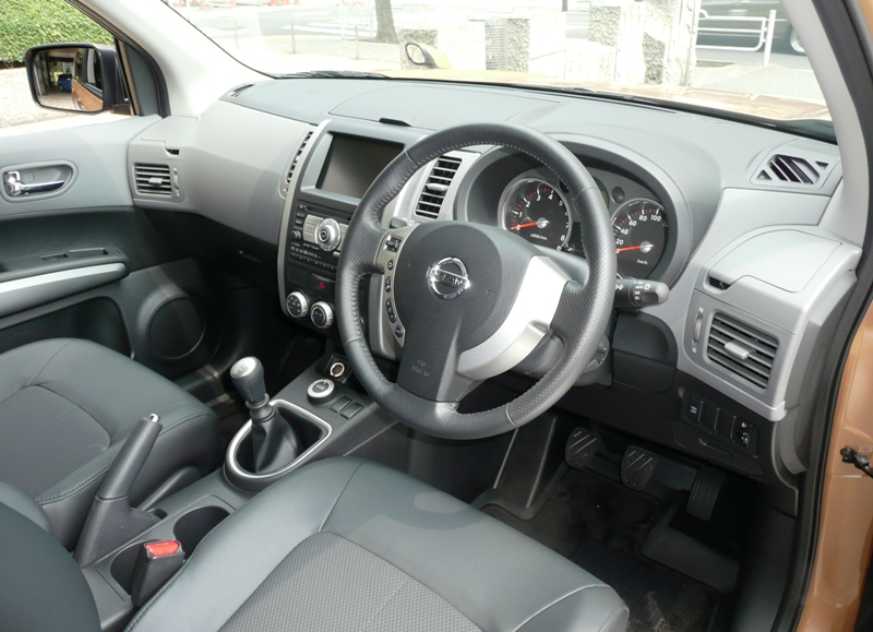 Nissan X-Trail interior.